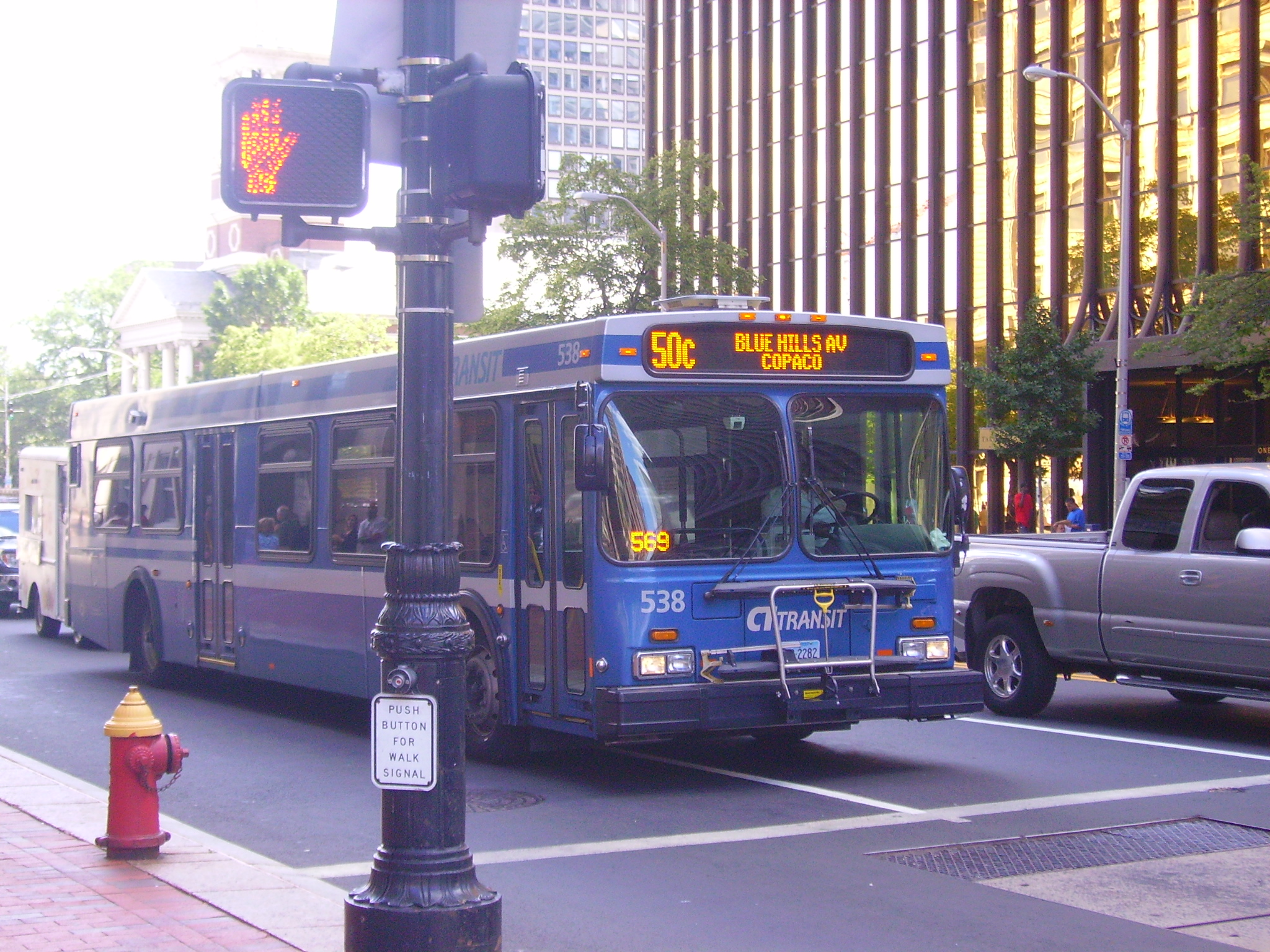 CT Transit Hartford Division's New Flyer D40LF bus #538 on the 50-Blue Hills Avenue line. Main Street, Downtown Hartford, CT.